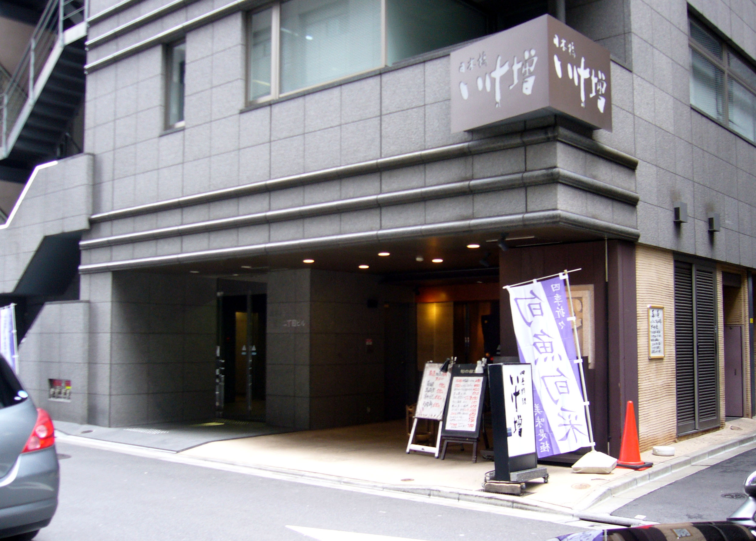 Nihonbashi-dori 2-chome Building (Tokyo, Japan)